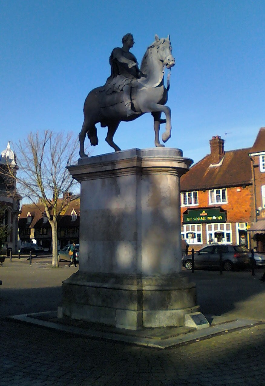 I took this photo of the statue (which is obviously no longer protected by copyright) myself.